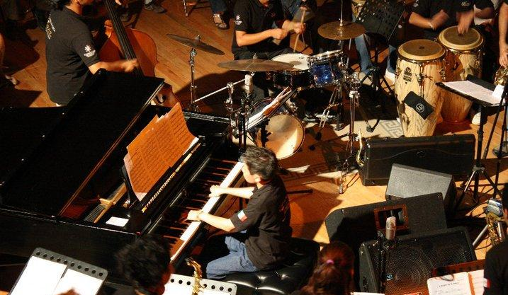 His unique way of playing the piano is unique because it always implements a perfection in the most difficult passages. Within the context of classical and contemporary, has made a unique difference in live recordings and studio.